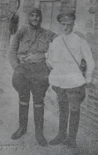 General Garegin Nzhdeh with Colonel Ruben Narinian in the fall of 1920.